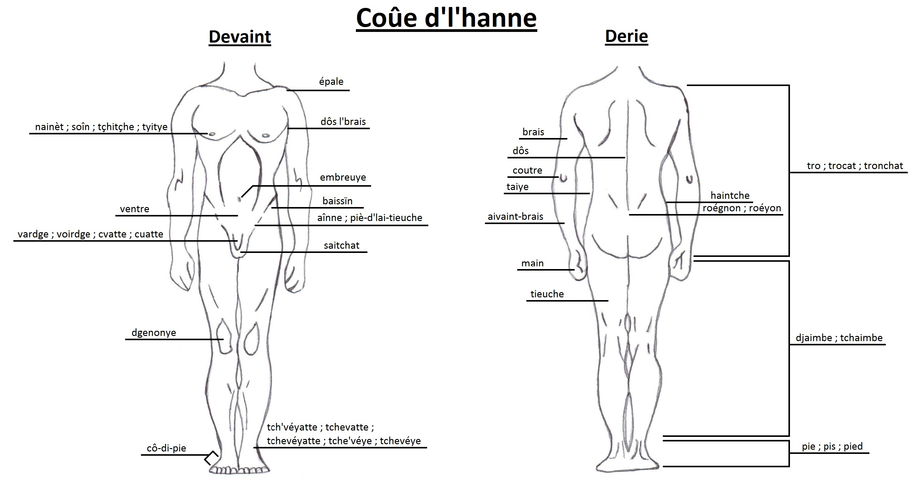 Humain body in frainc-comtou language